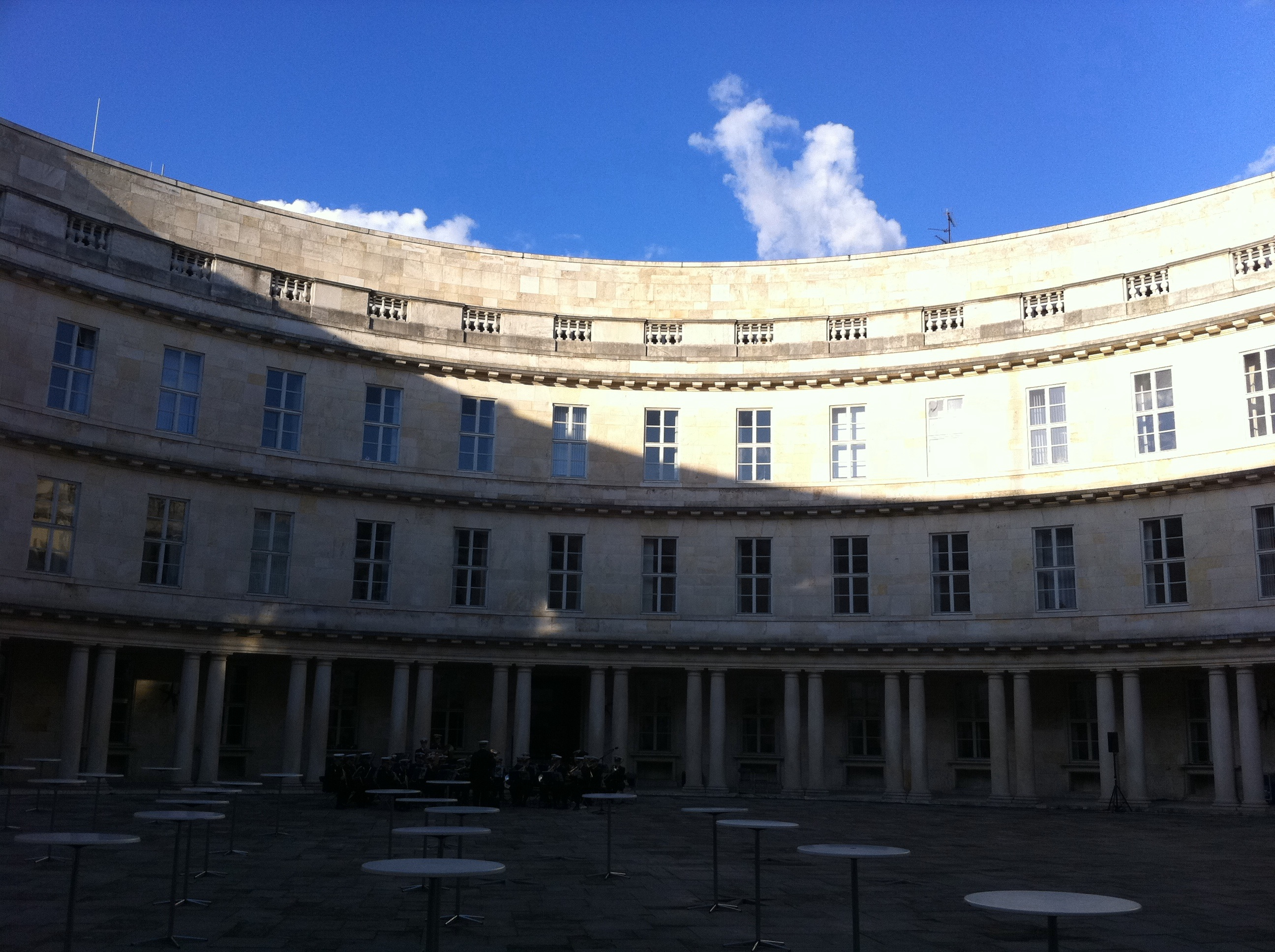 The round courtyard of the Police Headquarters in Copenhagen, Denmark